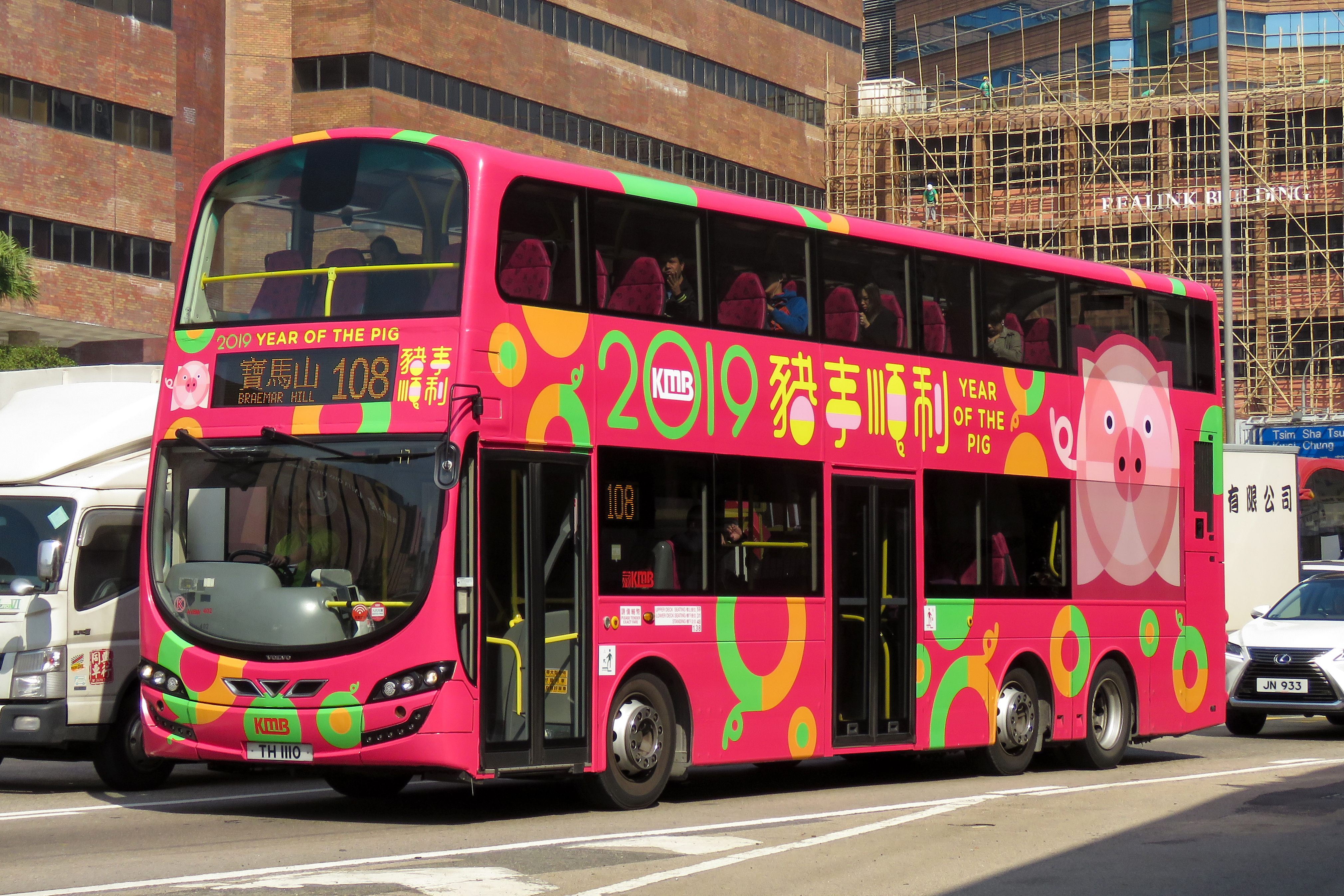 Perfect lighting, perfect angle... all is done for KMB Piggy livery!